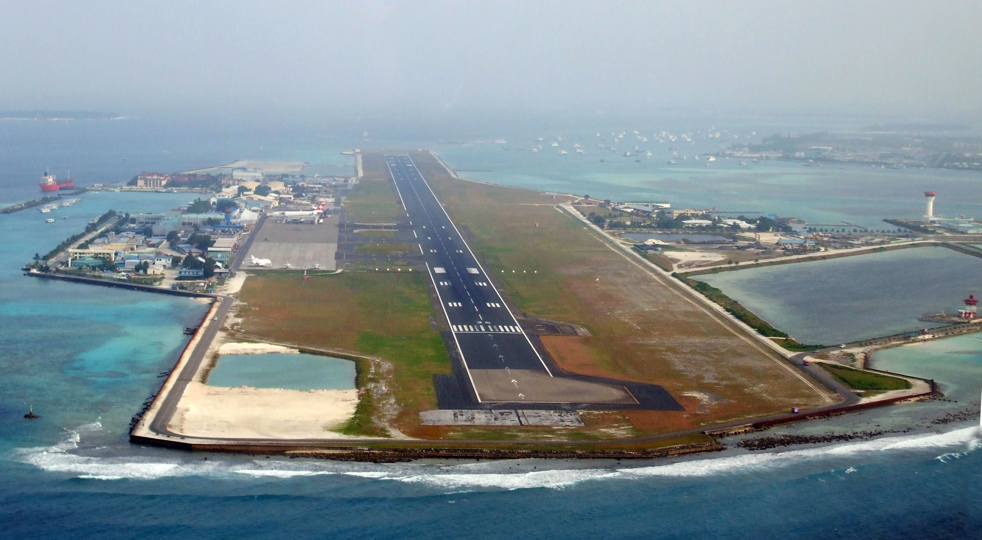 Velana Internatonal Airport